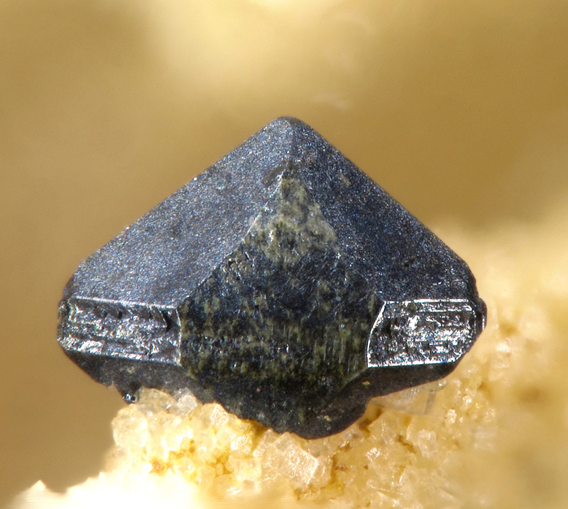 Čechite Field of view 1.8 mm Locality: Maria Magdalena Mine, Ulldemolins, Priorat, Tarragona, Catalonia, Spain